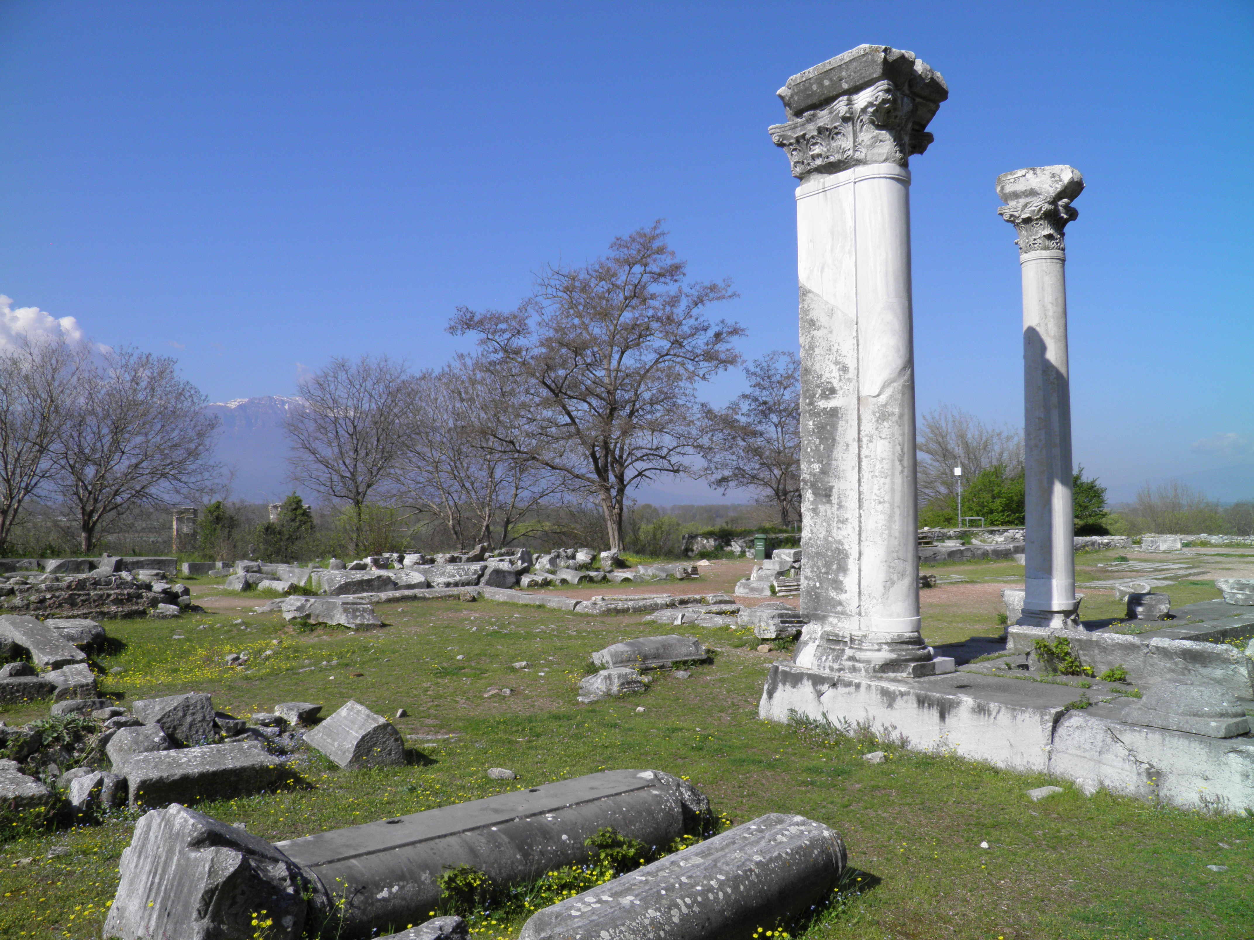 Ruins of a large three-aisled early christian Basilica (Basilica A), end of 5th century AD, Philippi